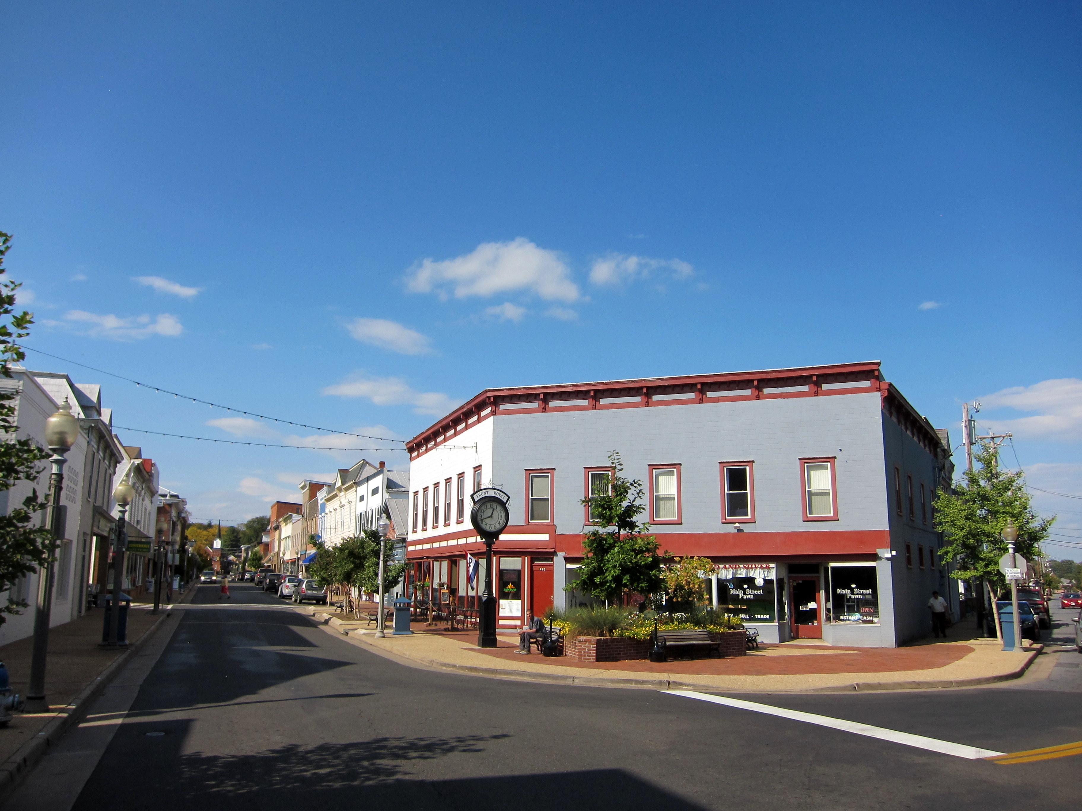 East Main Street in Front Royal, Virginia.